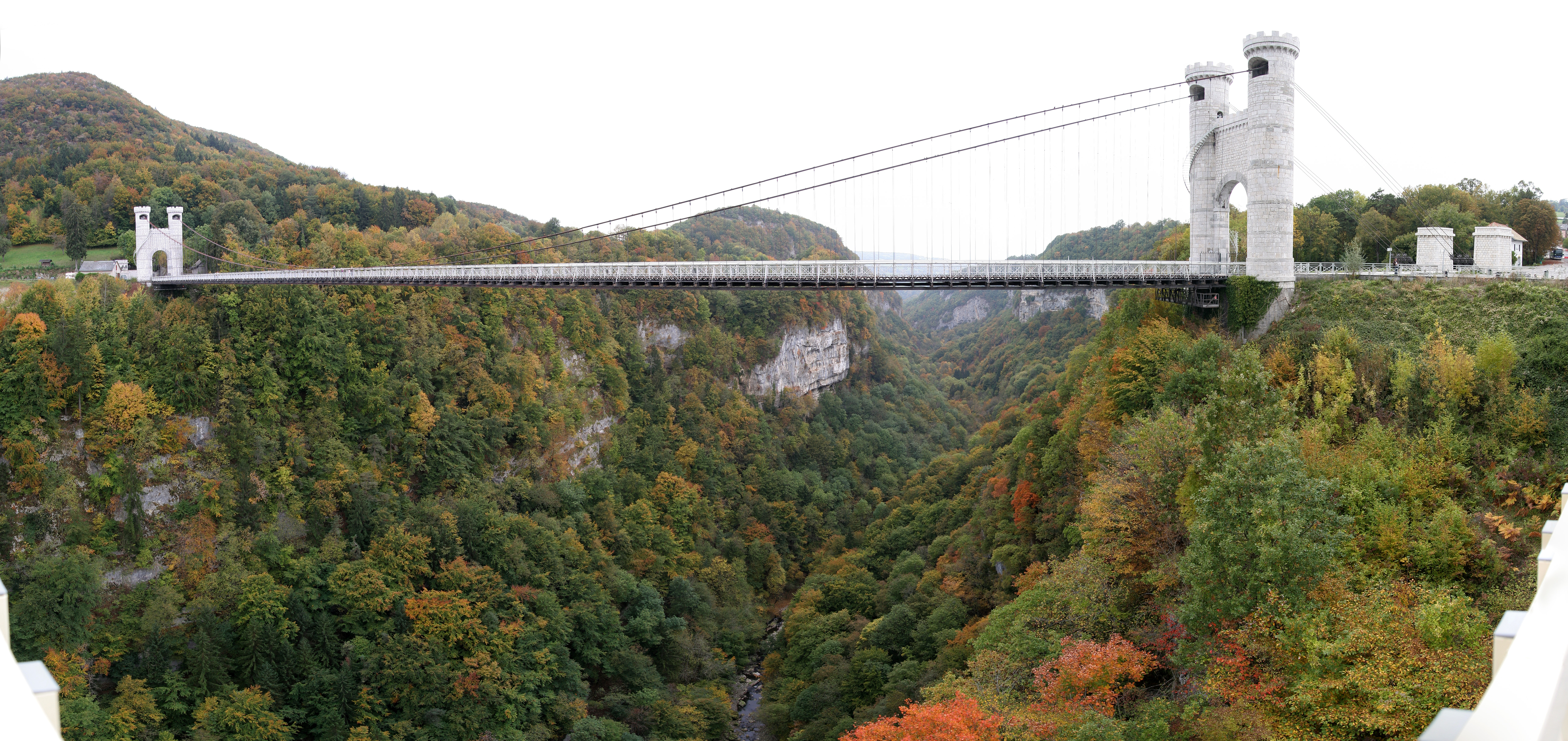 The Pont de la Caille in the French department Haute-Savoie. Made with Hugin, stitching 15 single pictures.